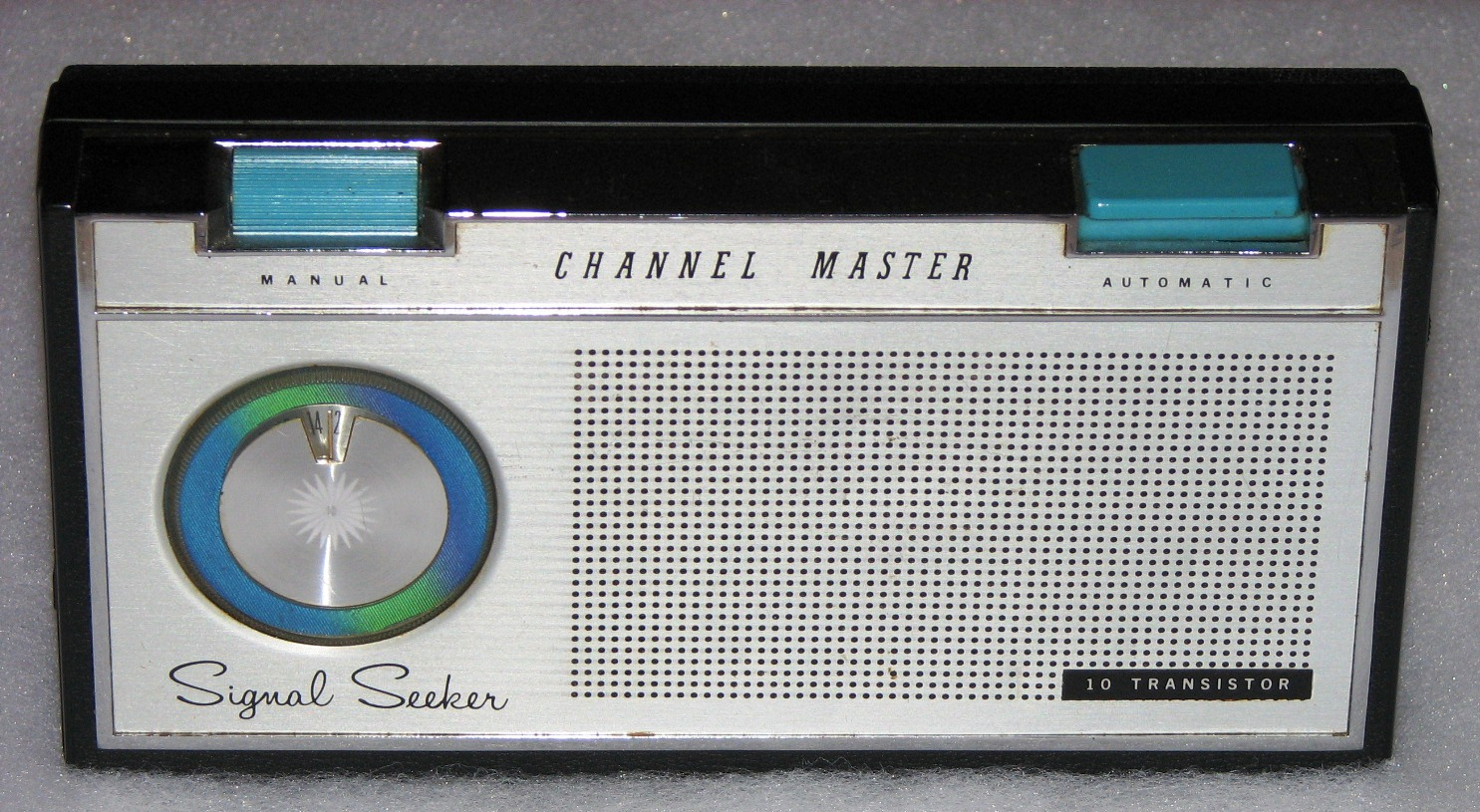 This radio was made for Channel Master by Sanyo.